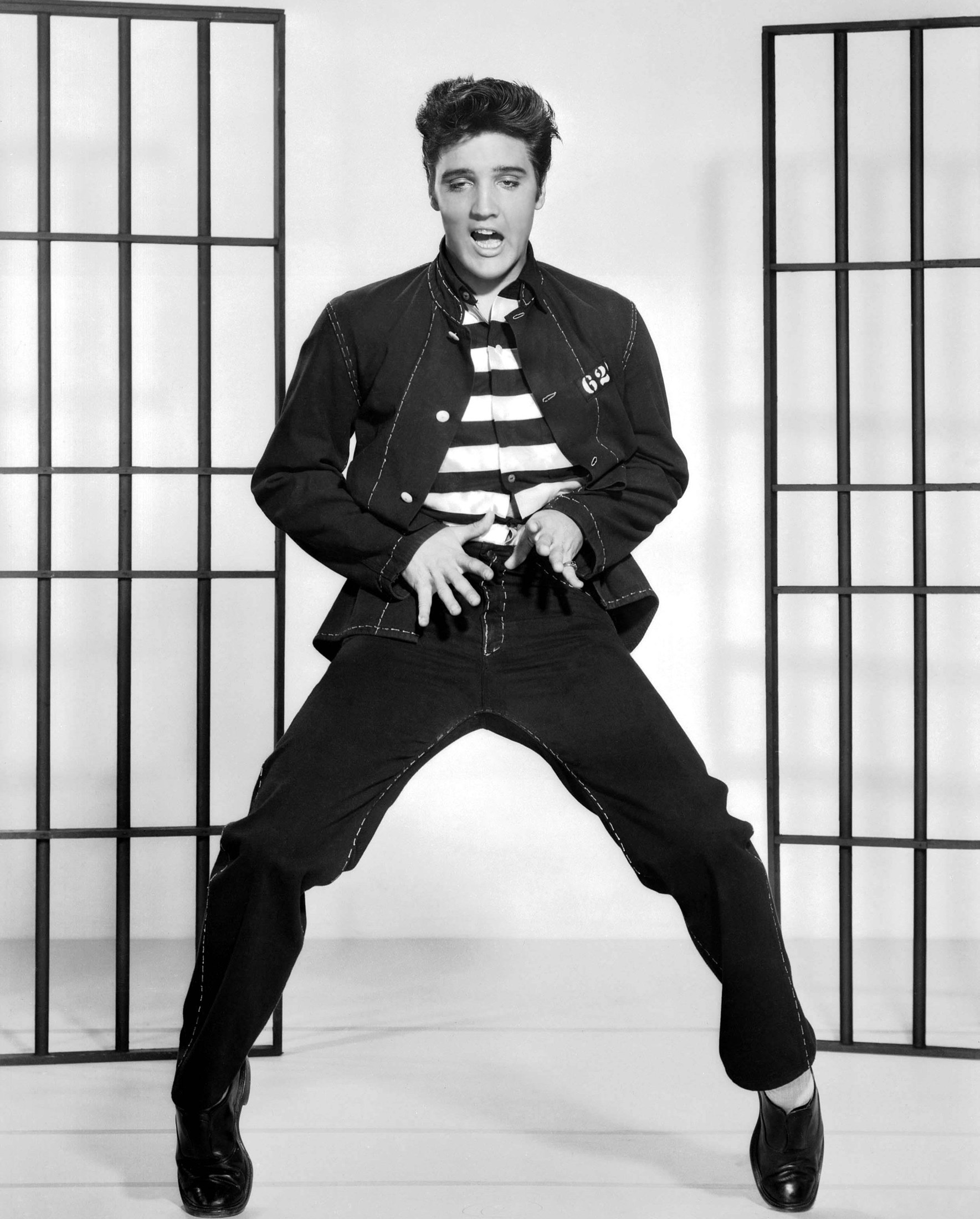 A photograph promoting the film Jailhouse Rock depicts singer Elvis Presley.